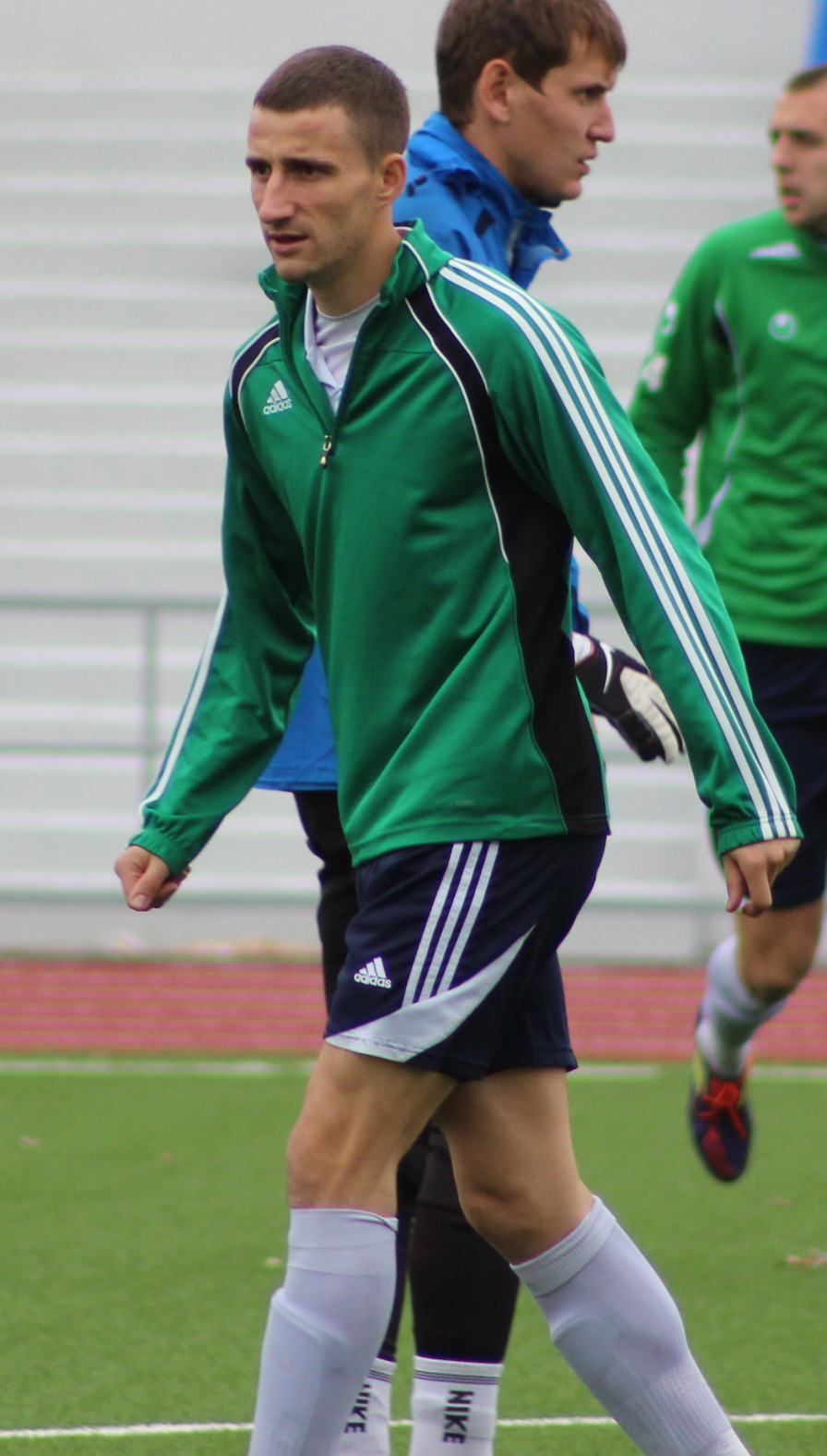 Ivan Shelest